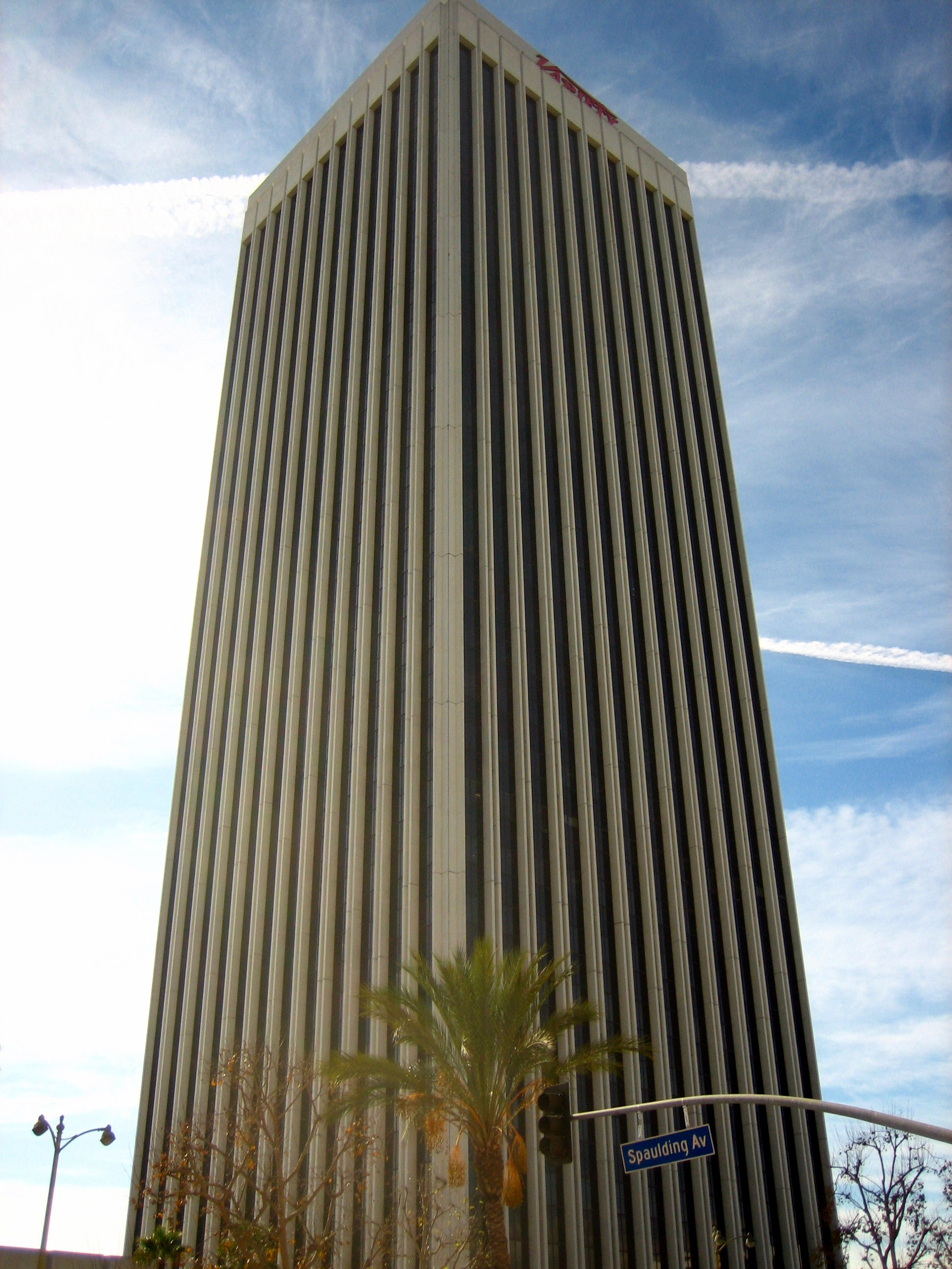 5900 Wilshire is a high rise on Wilshire Blvd in the heart of the Miracle Mile area (Los Angeles, CA), and was dubbed the Variety Building. It has the headquarters of Variety and Tokyopop